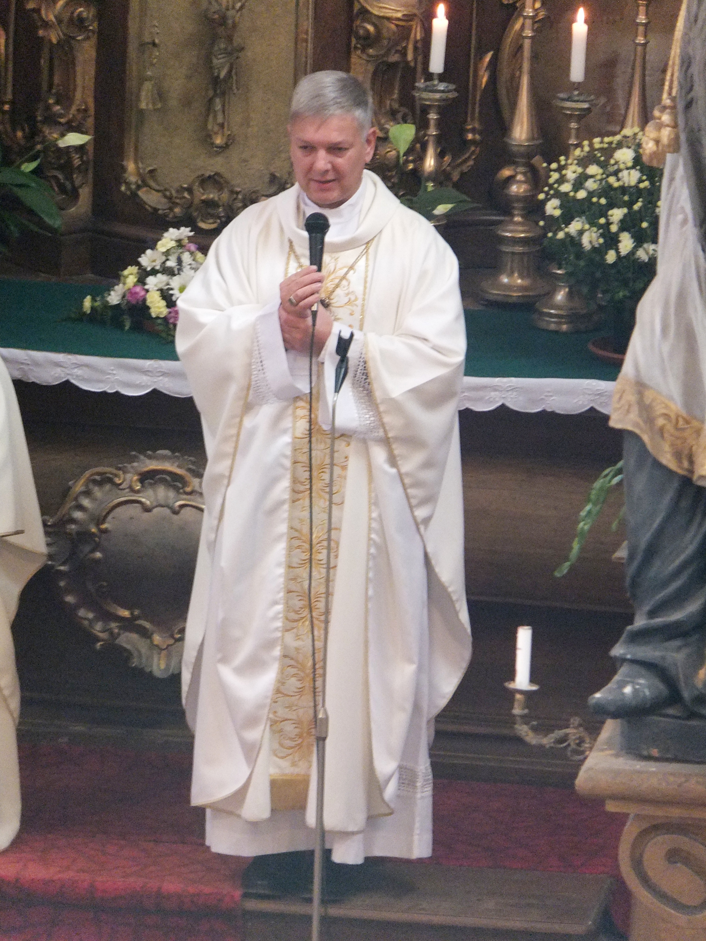 P. Josef (Joseph) Šedivý, OCr. during the pilgrimage mass in Starý Knín in 2017 year